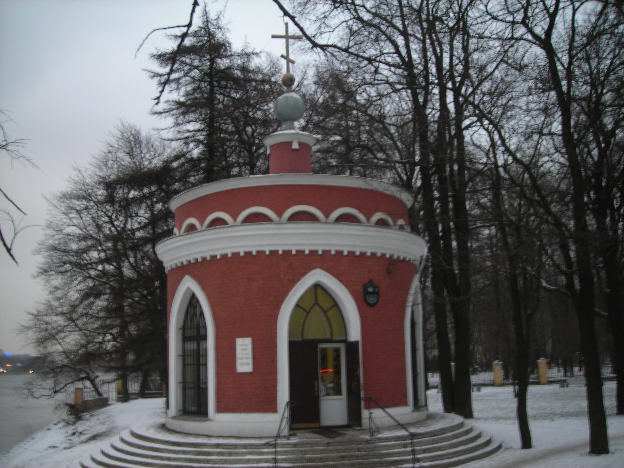 Chapel of St.Ioann's church, Spb